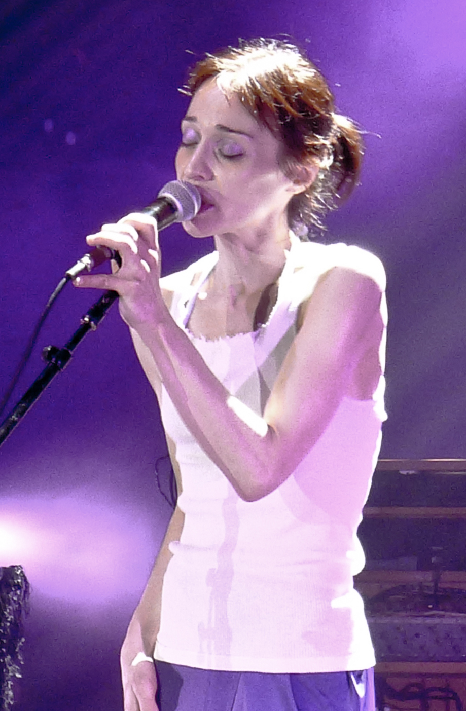 Fiona Apple on tour, 2012.